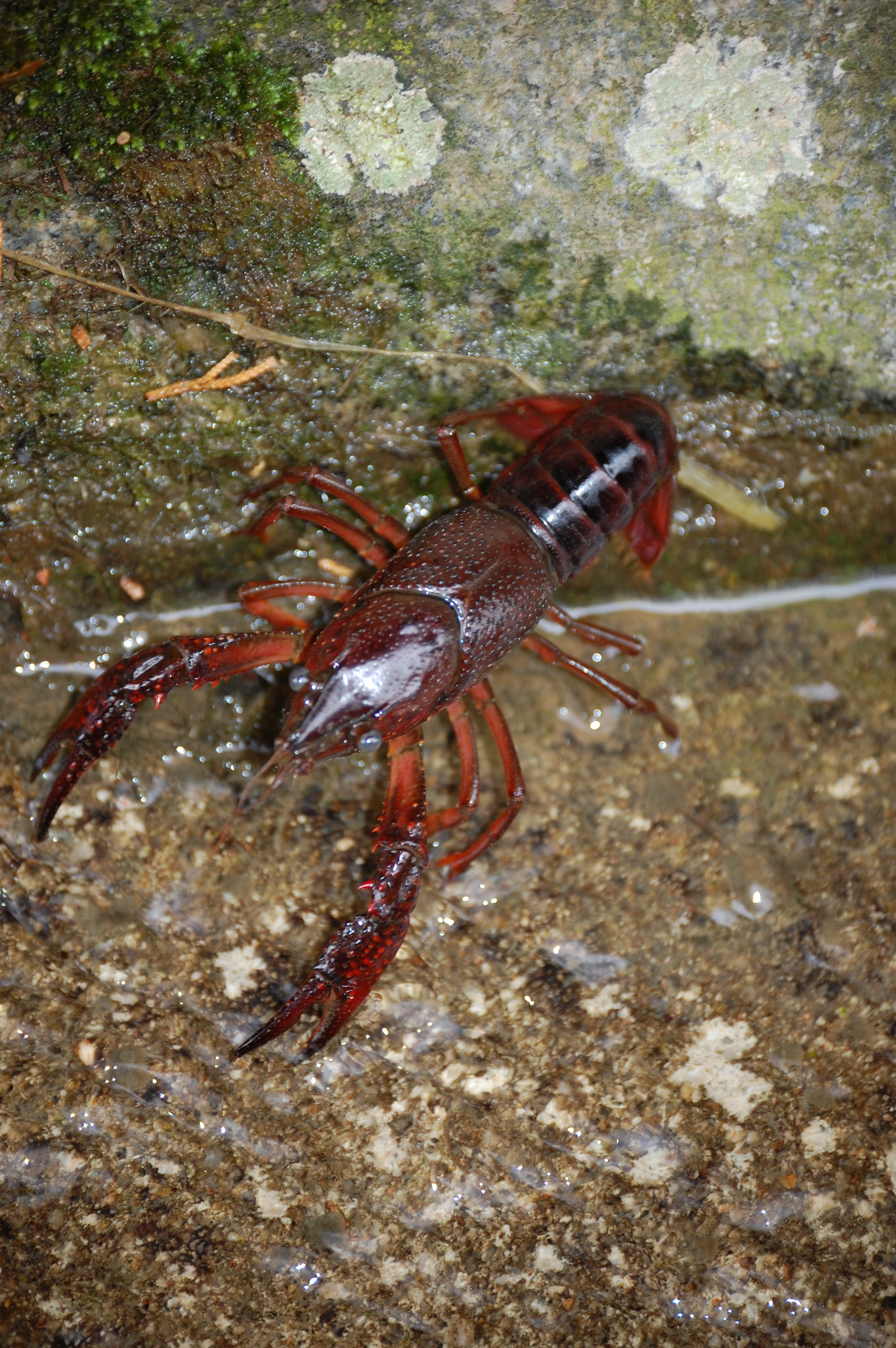 Freshwater crayfish - Portugal